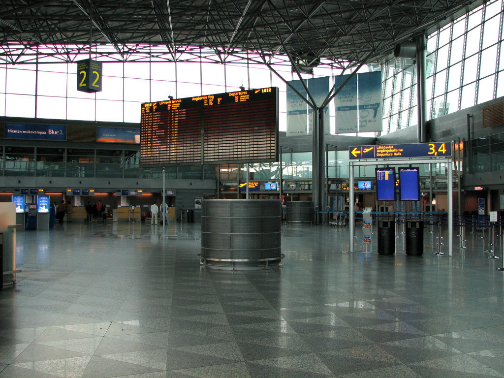 Helsinki-Vantaa Airport departure hall 2, international terminal.